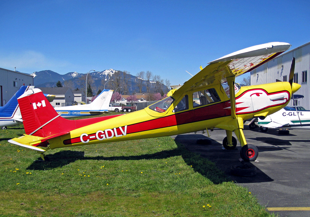 Utva 66 C-GDLV in civilian operation at Chilliwack airfield British Columbia Canada in April 2008